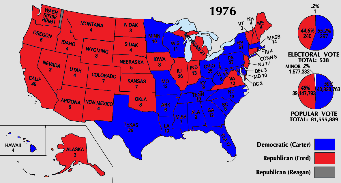 1976 US Electoral College Map color revision